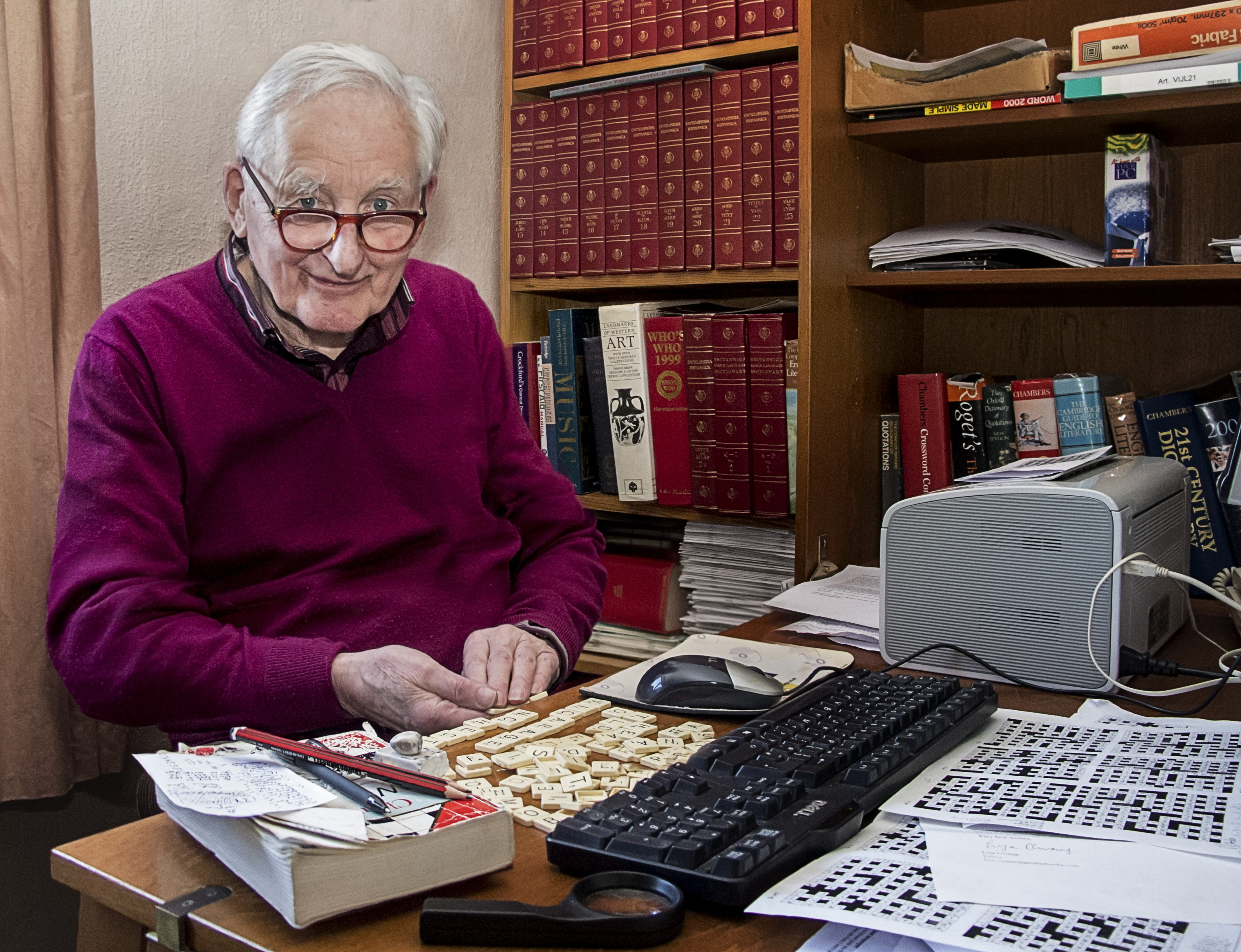 John Graham is the British crossword compiler better known as Araucaria. He uses Scrabble letters, as seen here, when devising anagrams. This photograph was taken on 31 January 2013.